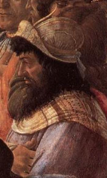 The Adoration of the Magi (by Sandro BOTTICELLI) (detail) of Theodorus Gaza.